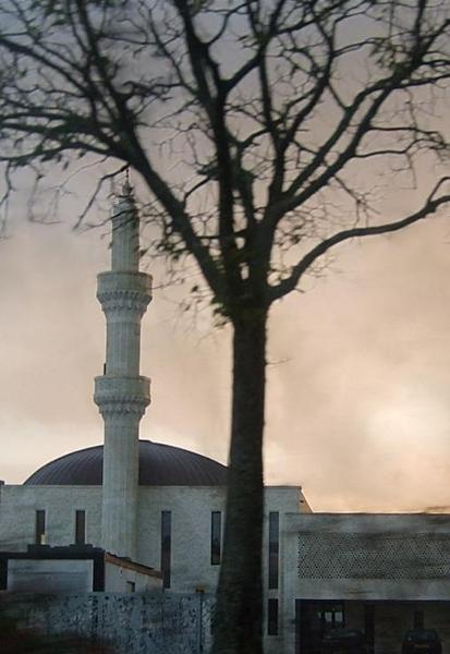 Mosquée Osmanli (dites aussi des turcs), Nantes.